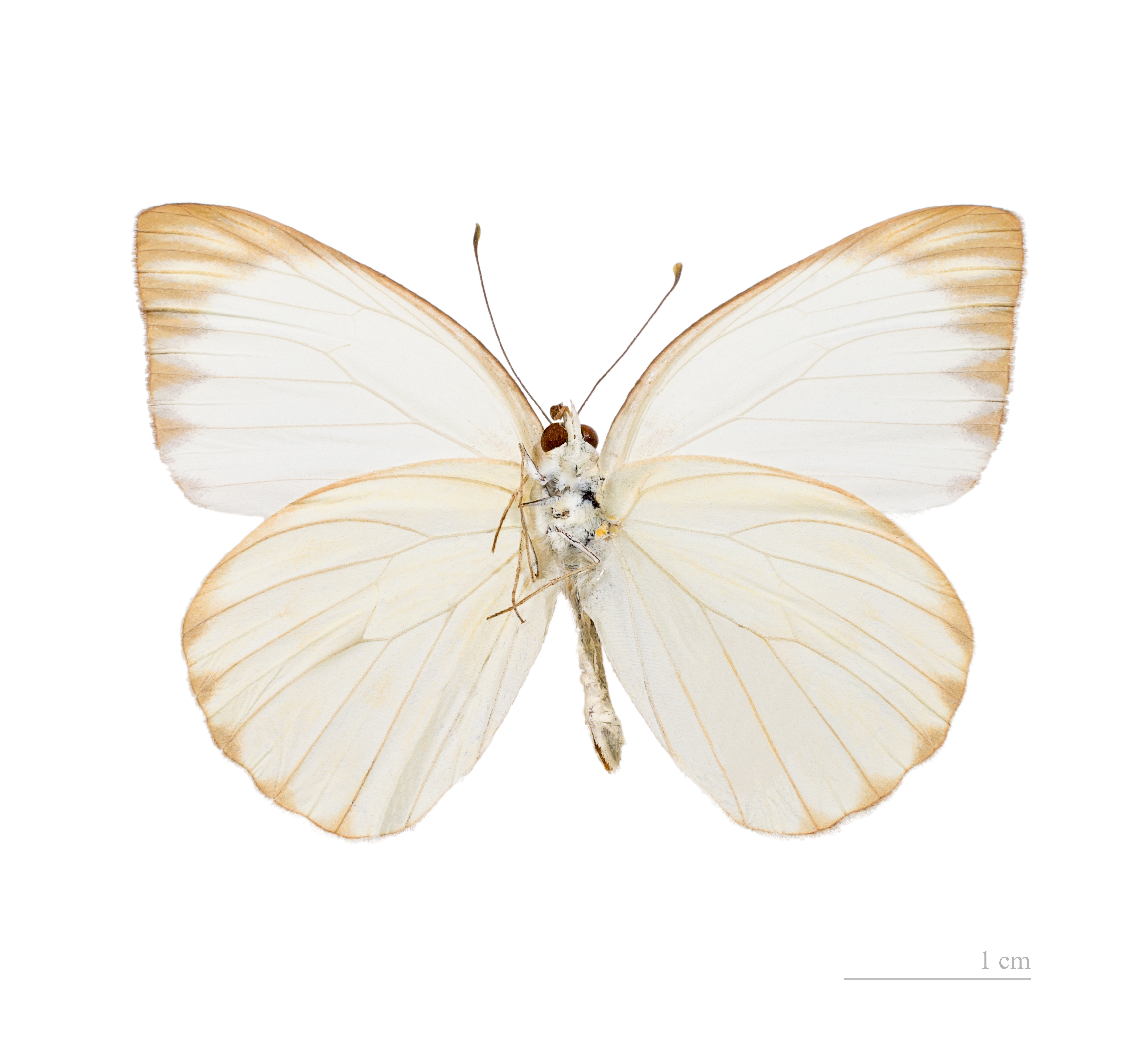 Great Southern White ♀ - △ Ventral side Locality : Iracoubo, French Guiana.